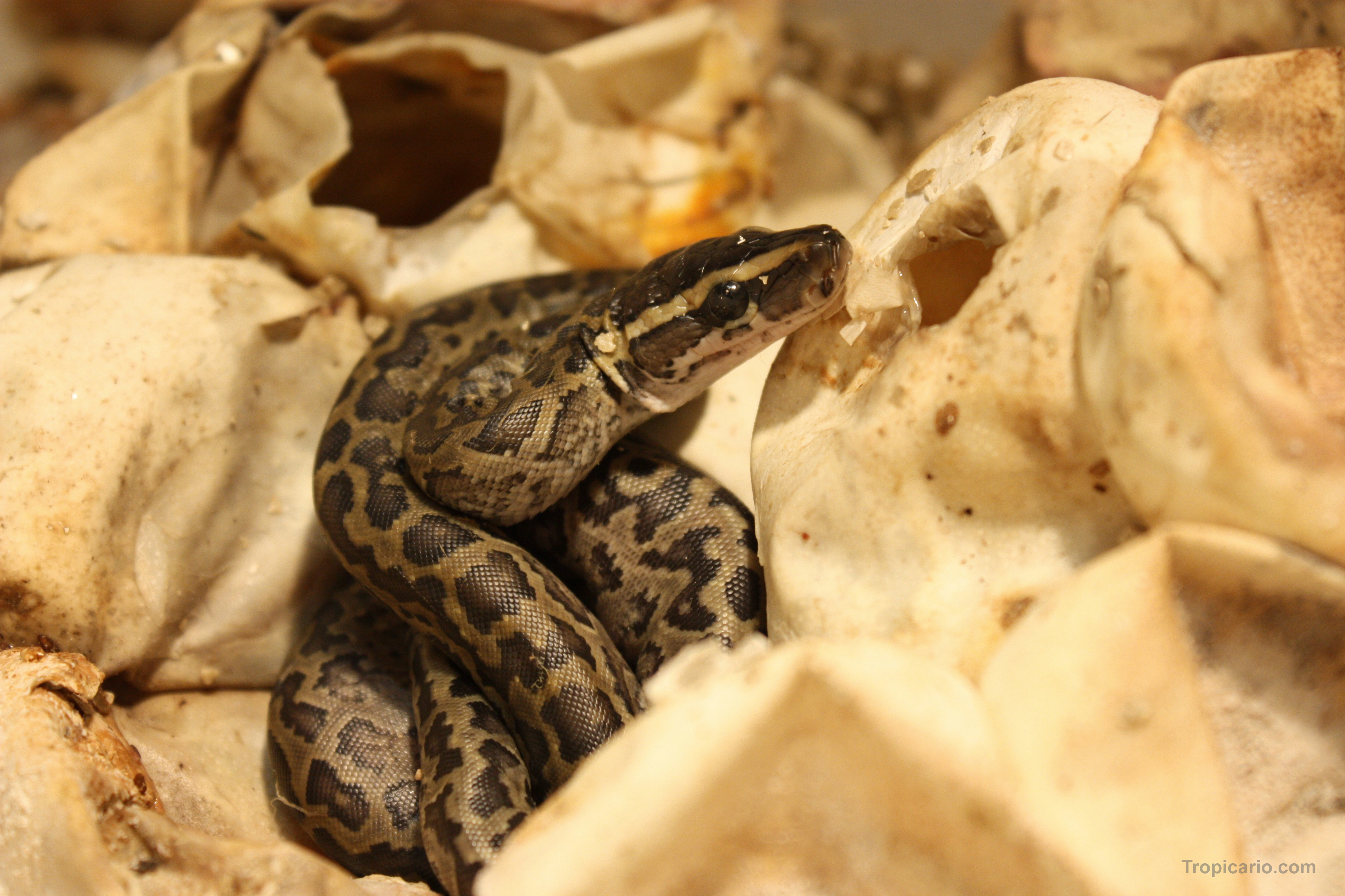 Just hatched Northern African Rock Python baby (Python sebae) at Tropicario - The Tropical Animal House, Helsinki, Finland. This picture is a donation of Tropicario, Finland (J. Lanki)